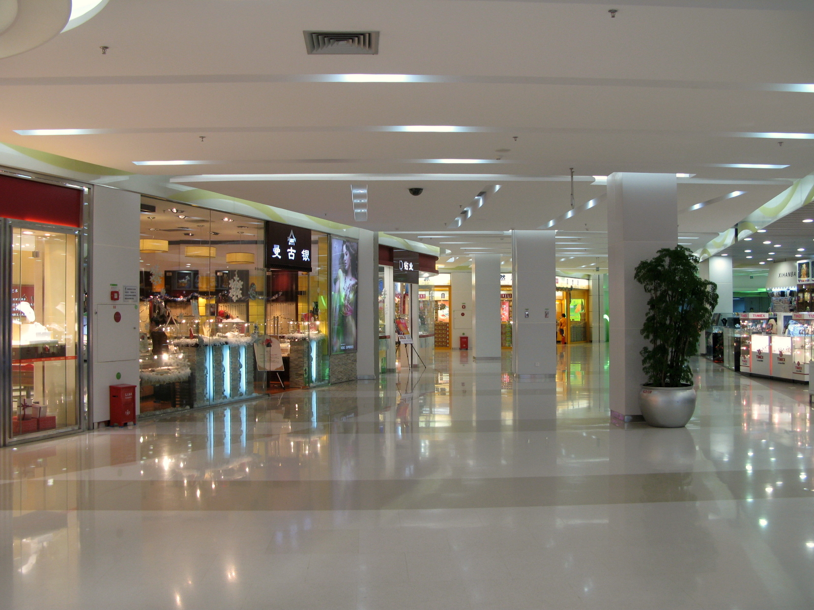 COCO Park Shopping Mall Interior